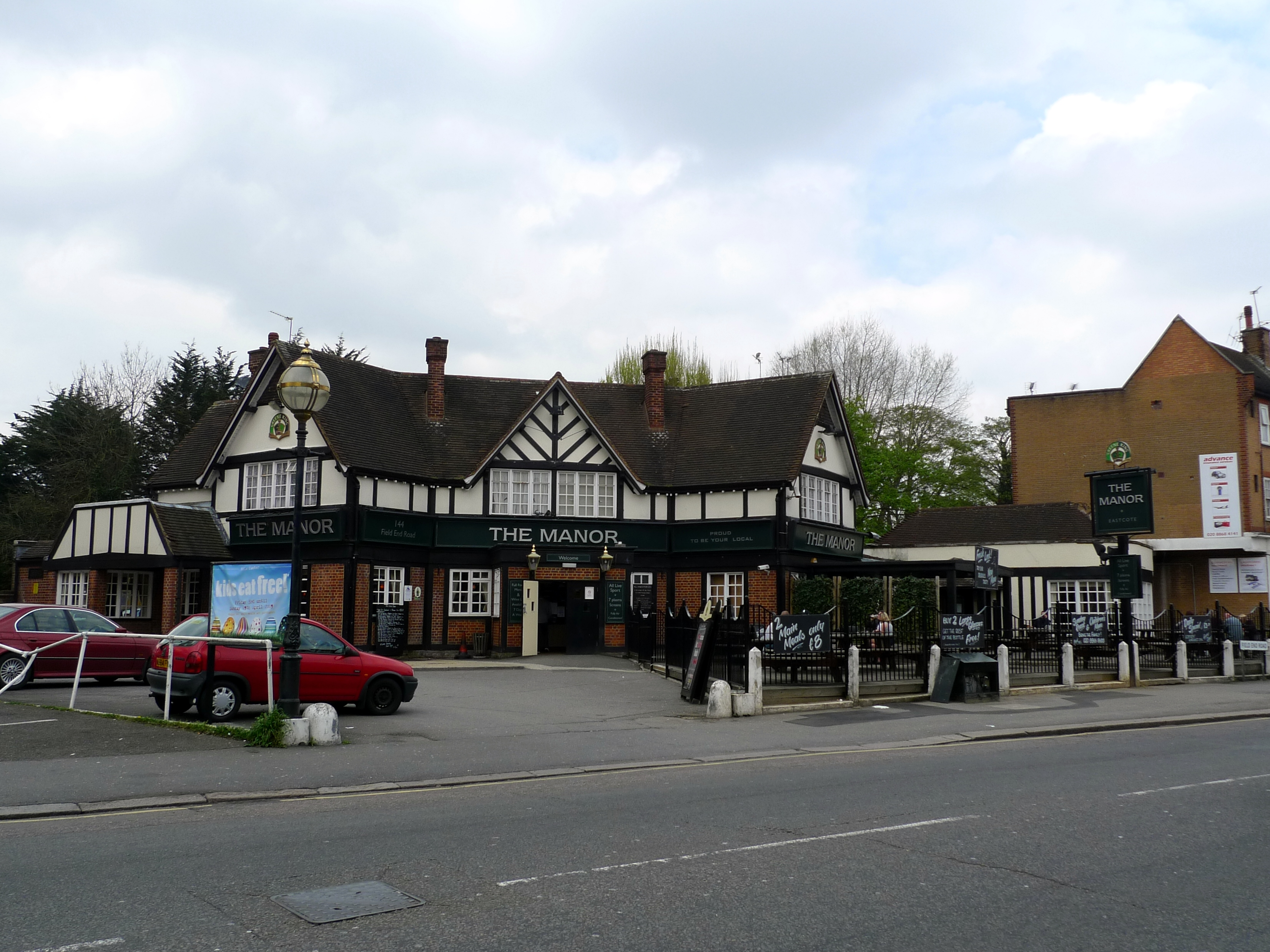 A large pub, the only one in this area (though there are a few bars between here and the station), and perfectly alright during the day at least. Address: 144 Field End Road. Former Name(s): The Manor House. Owner: Greene King. Links: Randomness Guide to London Fancyapint